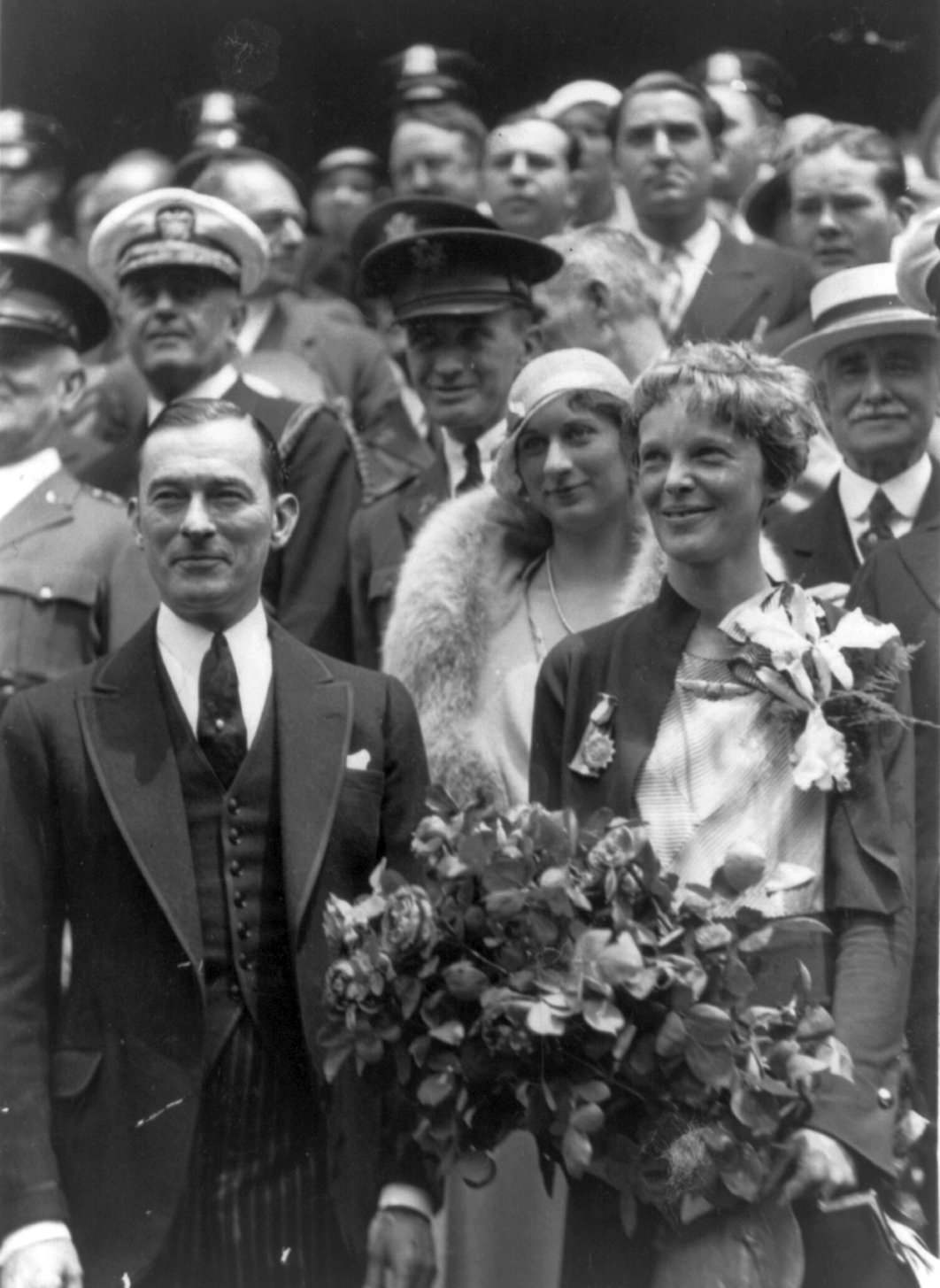 "Amelia Earhart, 1898-1937, half-length portrait, standing with Mayor James Walker of New York"